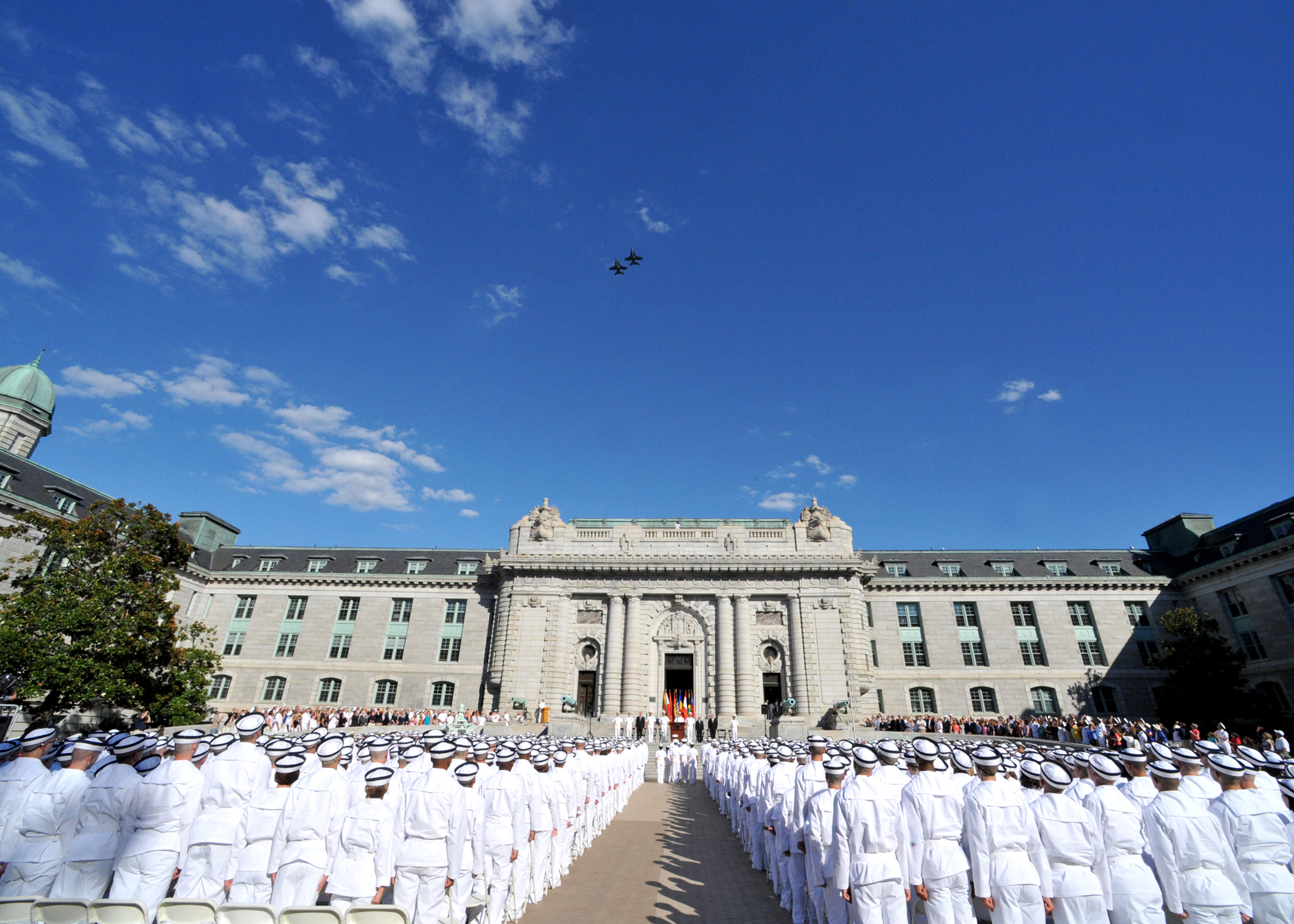 ANNAPOLIS, Md. (July 1, 2010) Members of the U.S. Naval Academy Class of 2014 participate in the Oath of Office ceremony at Tecumseh Court. The new 4th class midshipmen were officially sworn in, marking the beginning of "Plebe Summer," a demanding six-week training evolution designed to transition the students from civilian to military life. (U.S. Navy photo by David Tucker/Released)